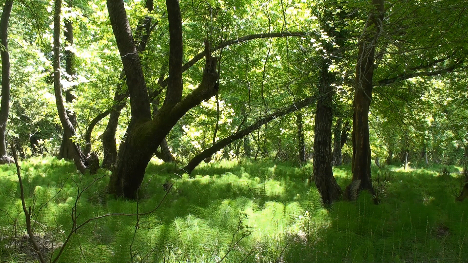 Liquidambar forest at Kavakarası, near Köyceğiz Lake. Photo: Maria Jonker